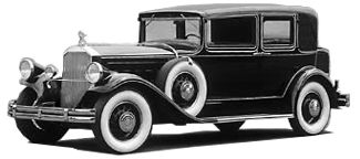 1932 Pierce-Arrow Sedan Fair use applies to this image which intended to illustrate a Pierce Arrow automobile for educational purposes. Pierce Arrow Corporation folded in 1938 and is defunct. This image is compressed and small in size making its reproduction for other uses difficult.